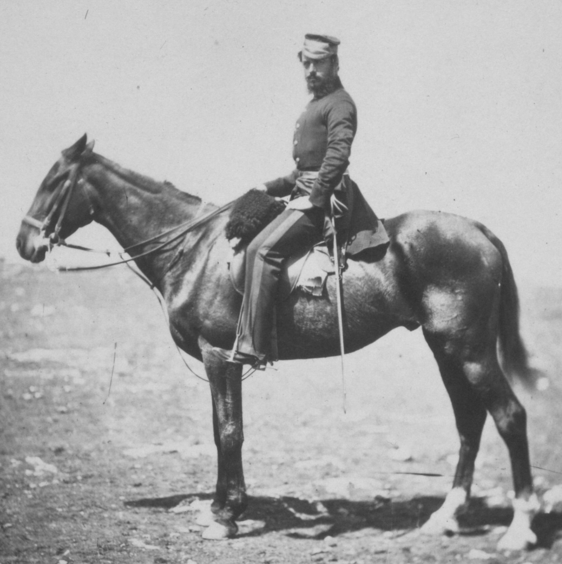 Captain Henry Hugh Clifford, later Sir Henry, of the British Army, along with his horse. At the time, he was aide-de-camp to General Buller. Clifford subsequently earned the Victoria Cross and rose to the rank of Major General.